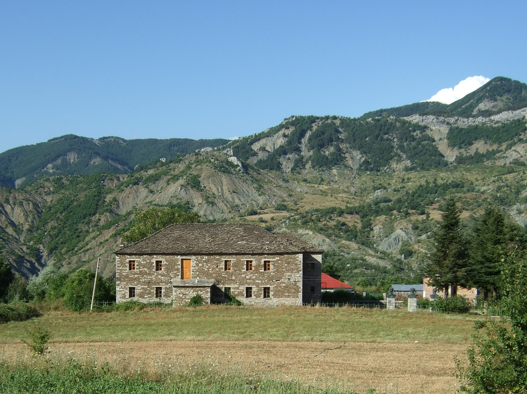 Museum at village Frashër, Albania (Ursprünglicher Name Dscf F30-2 011791 Dorf Frasher Museum rot crop lossless)